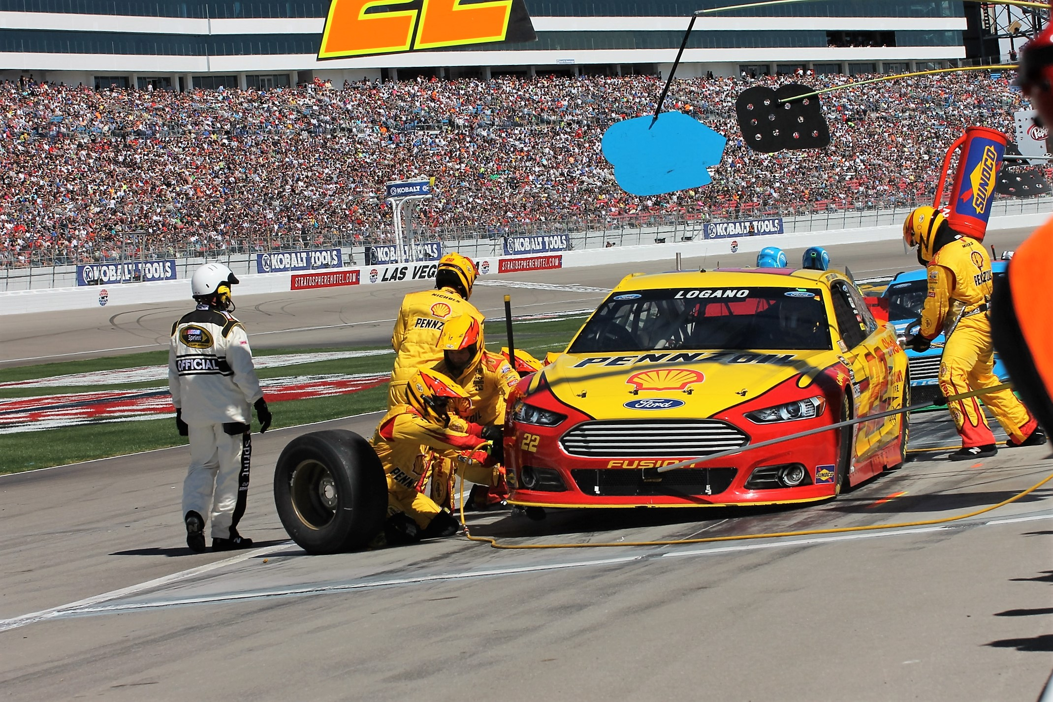 Team Penske #22 Joey Logano at Las Vegas Motor Speedway - March 2014